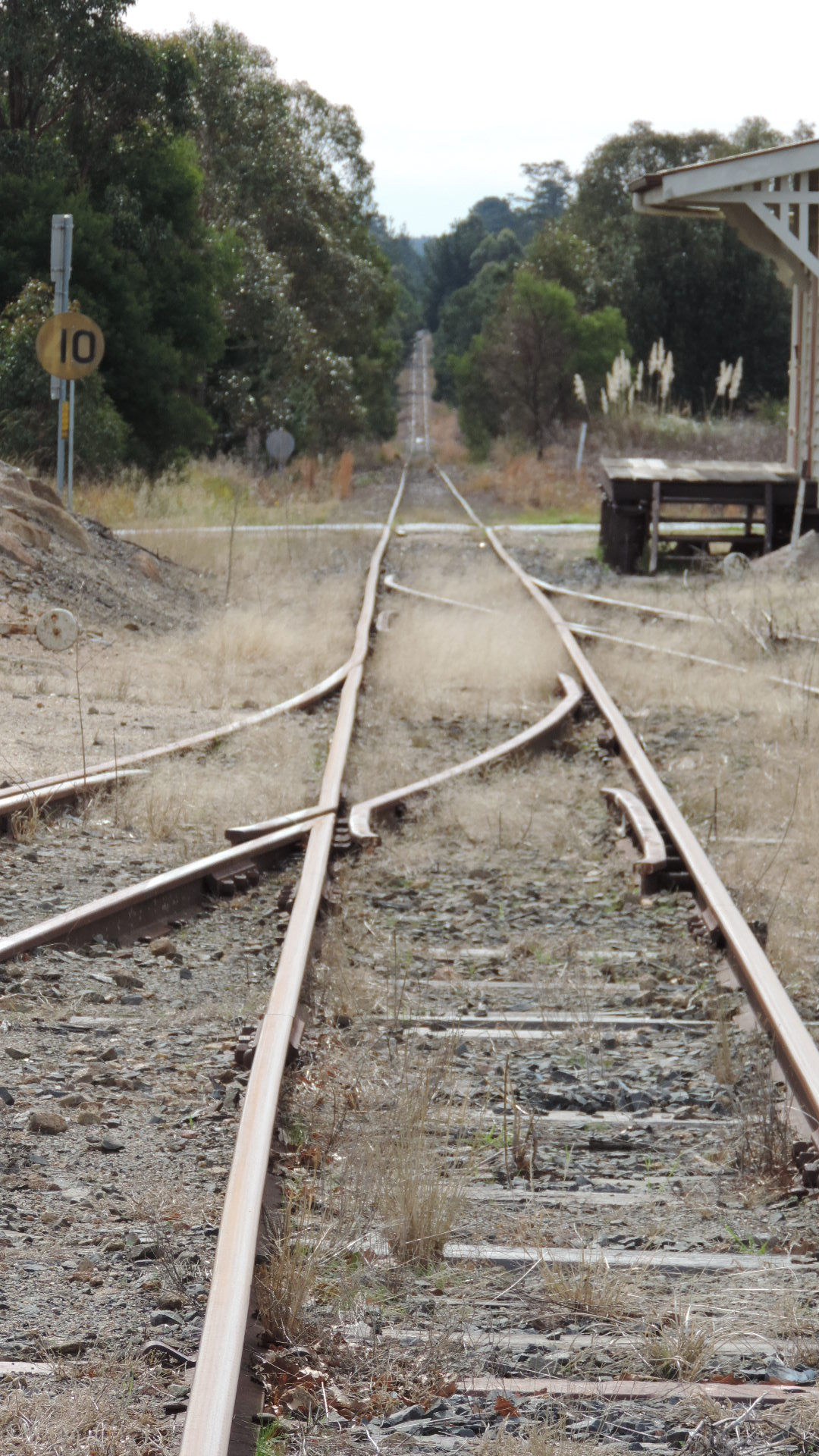 Southern railway line at The Summit railway station, 2015